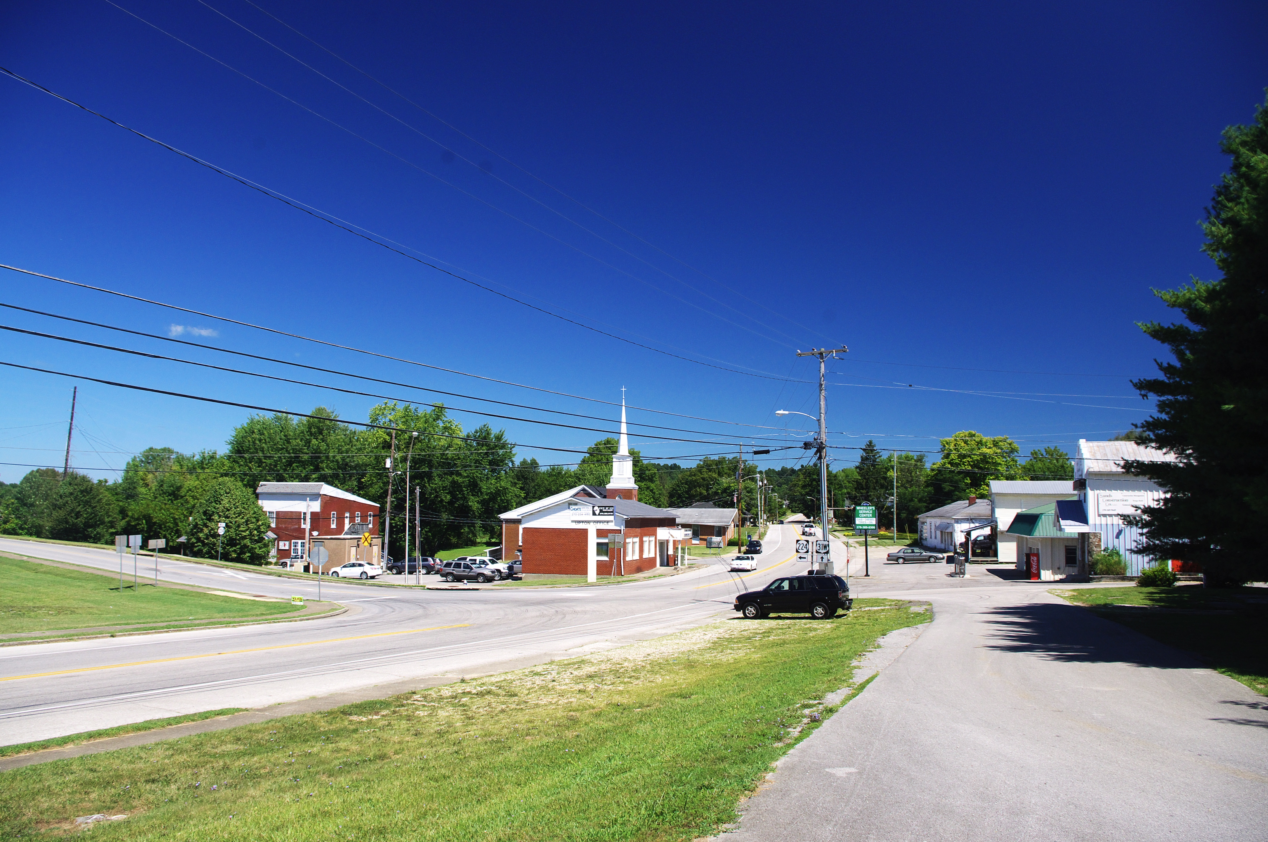 Upton, Kentucky, United States, looking north across the intersection of U.S. Route 31W and Kentucky Route 224.